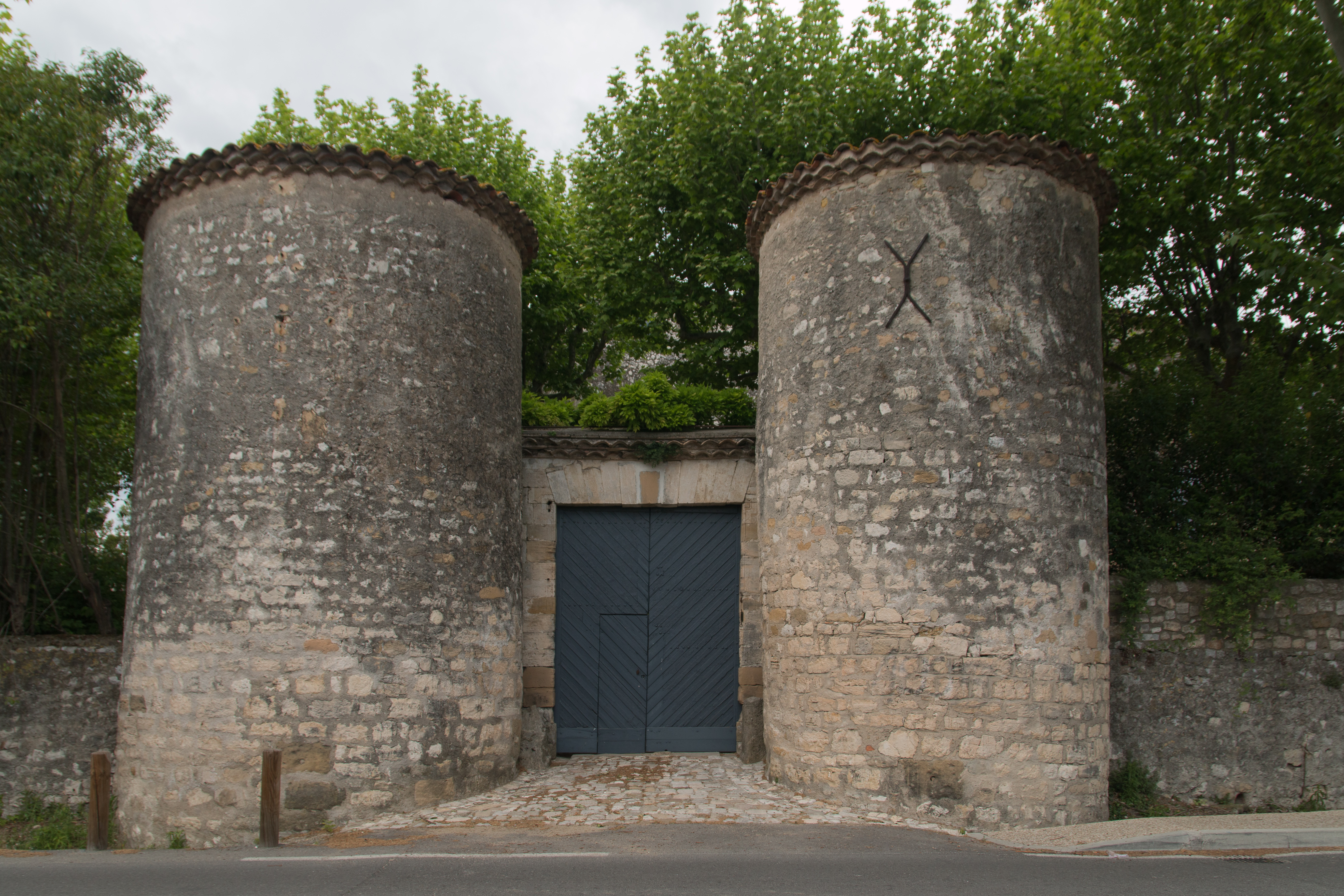 The walls and the towers witch protect the portal have been lowered by half the Revolution.